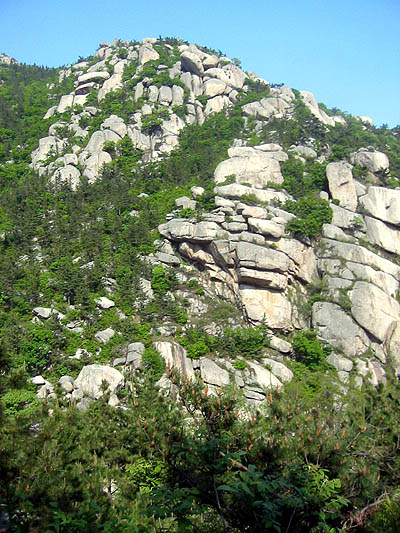 Laoshan—Mount Lao — in Qingdao Laoshan National Park, Qingdao, Shandong Province, eastern China.